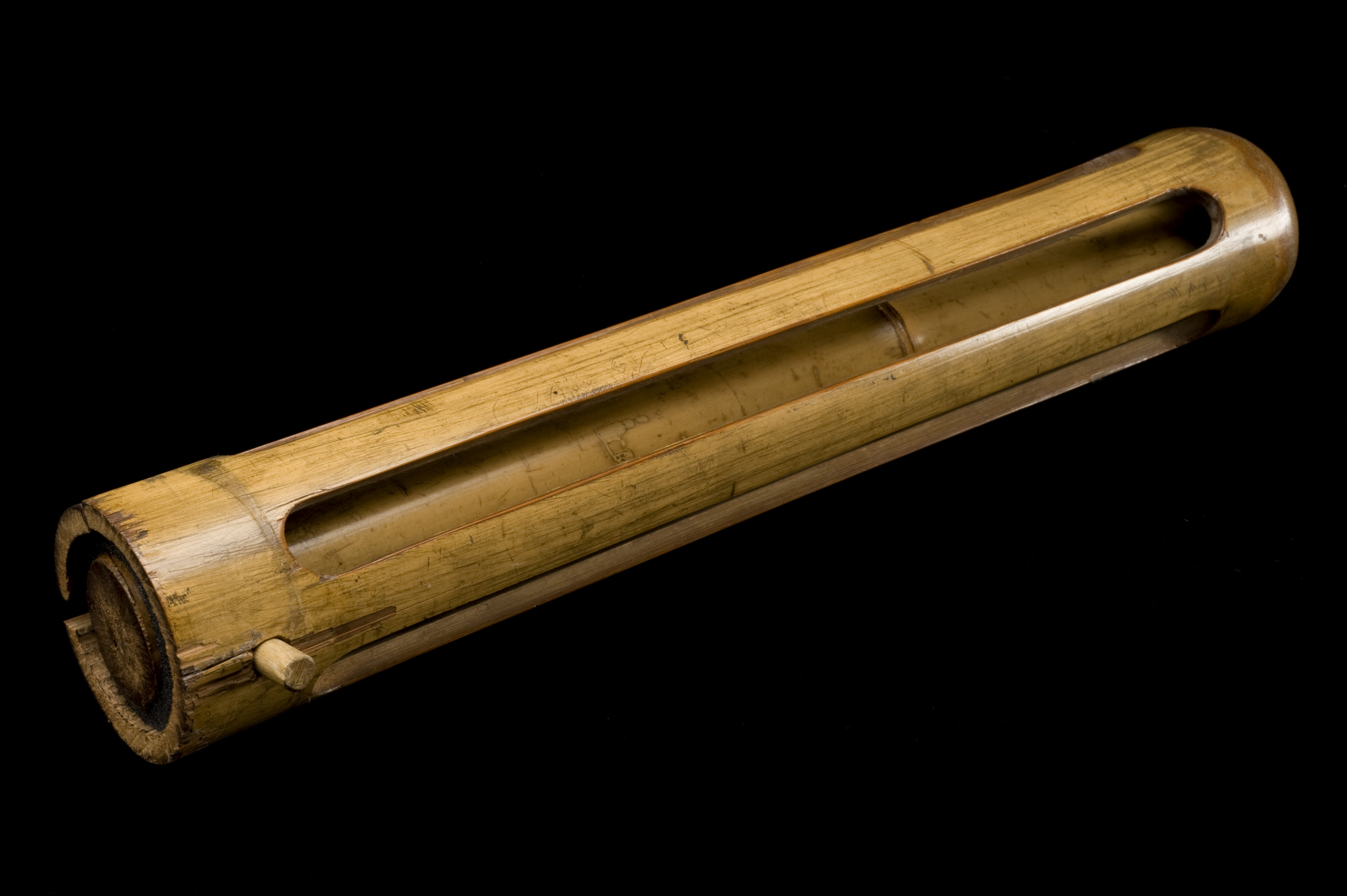 The inner tube of this bamboo trap was coated with a sticky substance such as birdlime to catch fleas. It can be removed to dispose of the dead fleas. Other Chinese traps were made from hollow pieces of bamboo or ivory and heated to attract fleas. They could be placed in beds to catch these insects, which bite and cause intense itching. Fleas are known to be carriers of diseases such as plague. maker: Unknown maker Place made: China Wellcome Images Keywords: Plague; insect trap